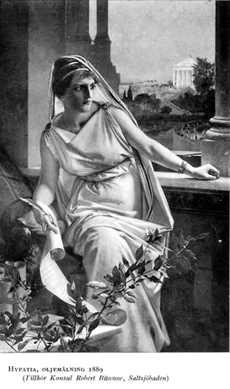 Black-and-white photograph of "Hypatia", an oil-painting by Julius Kronberg, painted 1889.